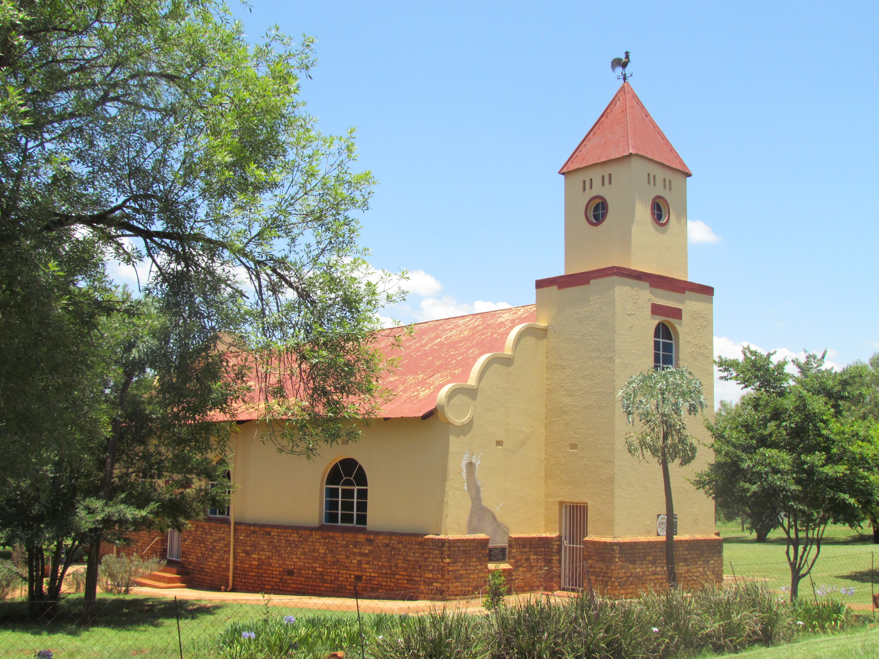 NH church Roossenekal